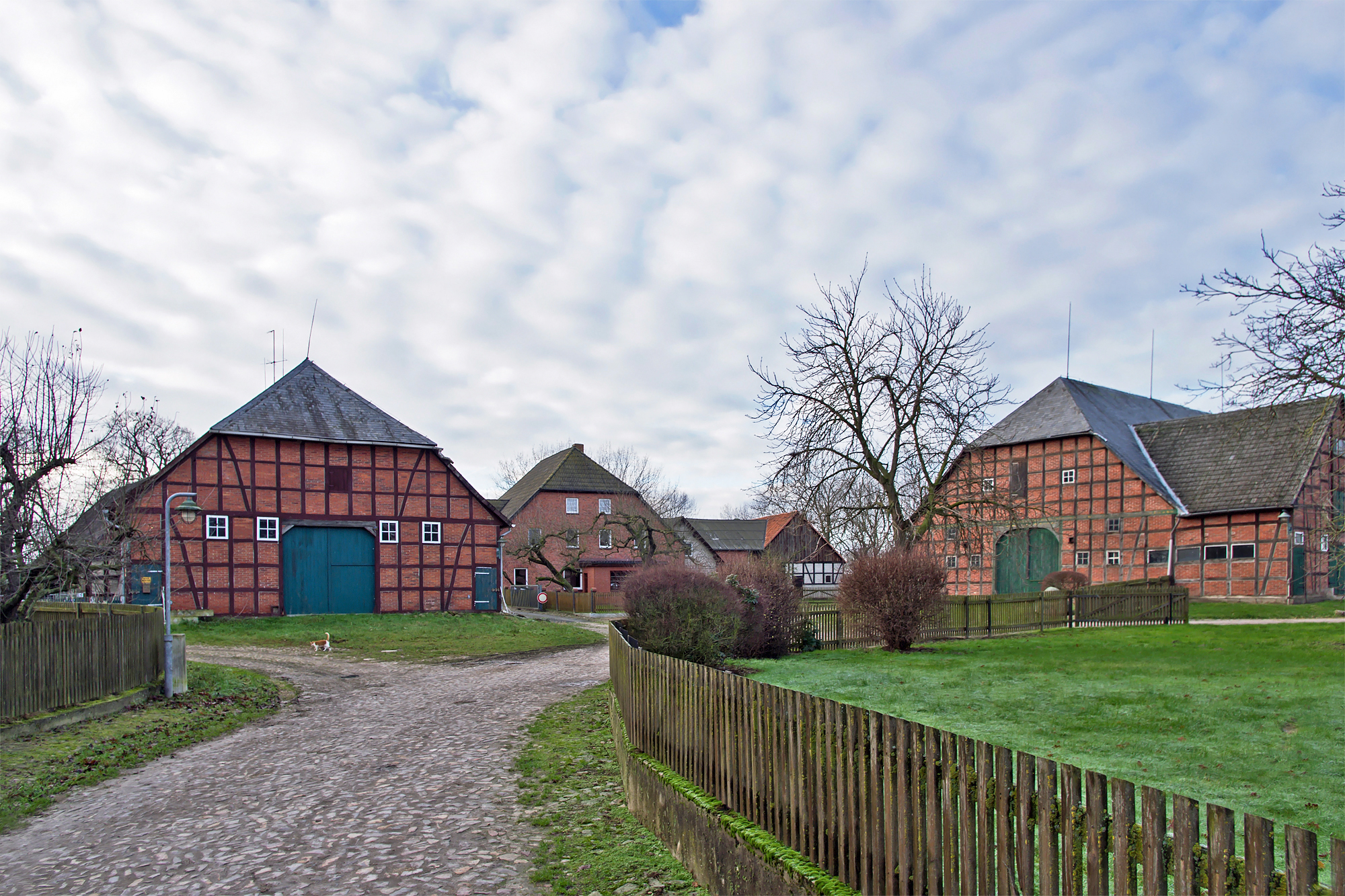 Small village Nienwedel near Hitzacker (district Lüchow-Dannenberg, northern Germany).